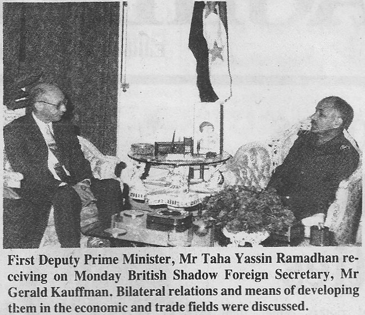 Mr. Taha Yassin Ramadhan (right), First Deputy Prime Minister of Iraq